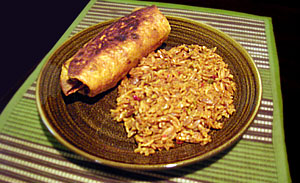 Chimichanga.